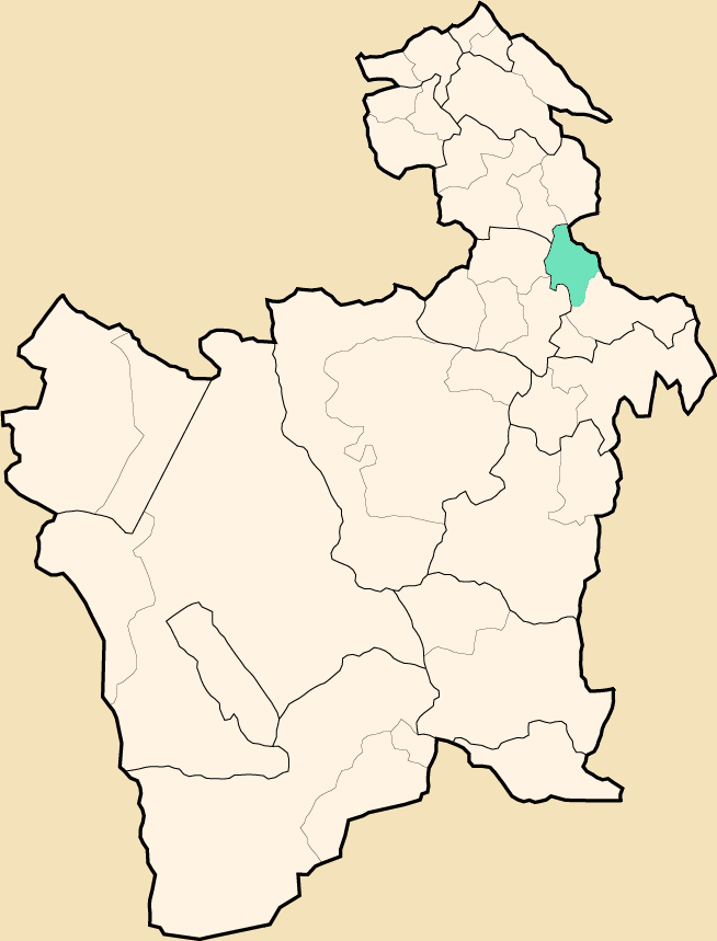 Tacobamba Municipality, Potosí Department